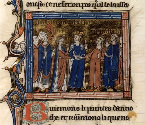 Miniature: wedding of Guy of Lusignan and Sibylla